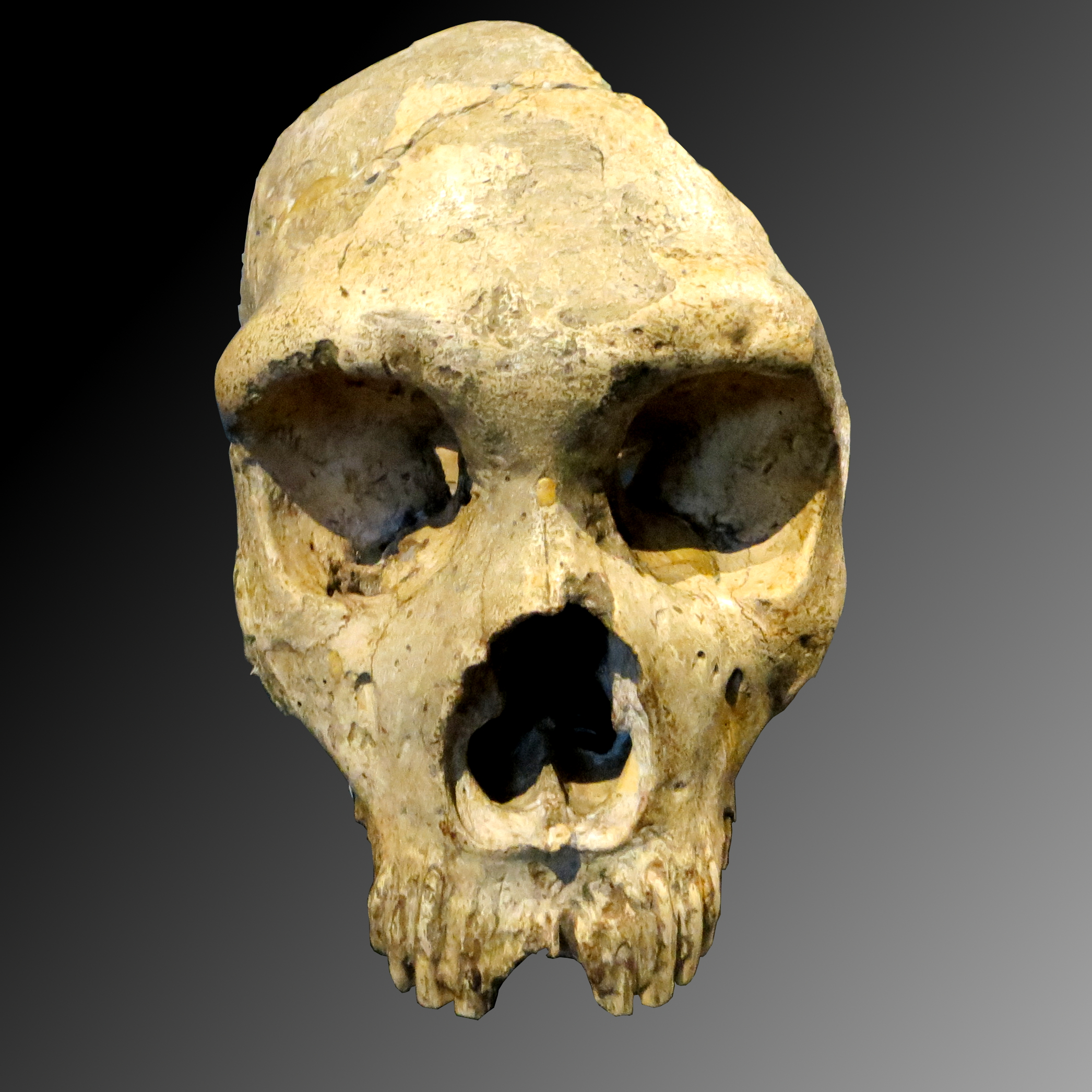 Gibraltar 1.